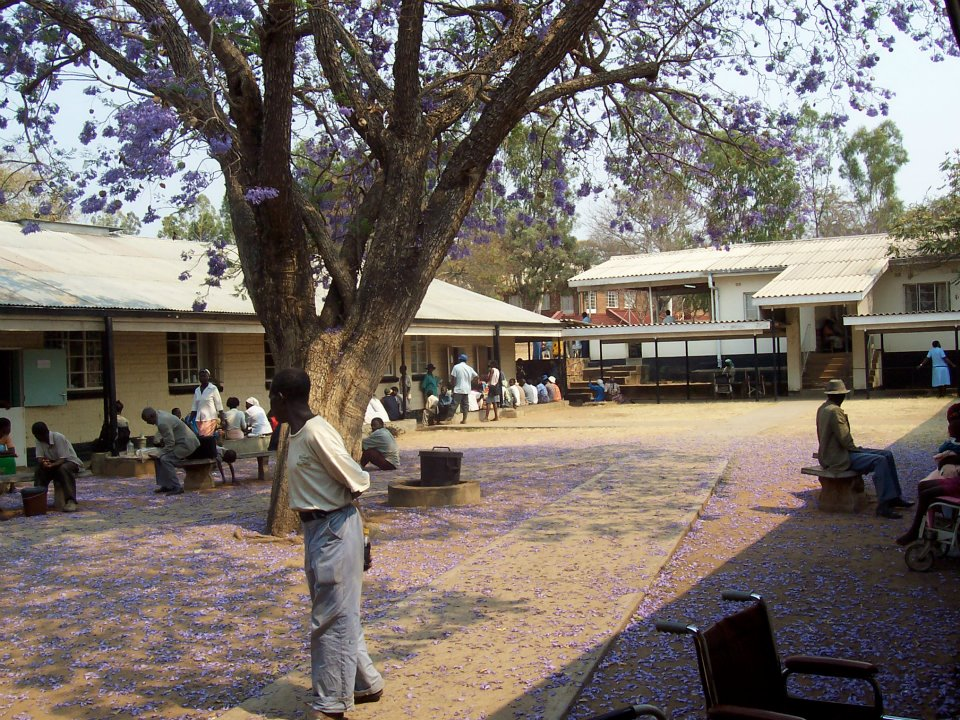 Picture of Karanda Mission Hospital in Zimbabwe